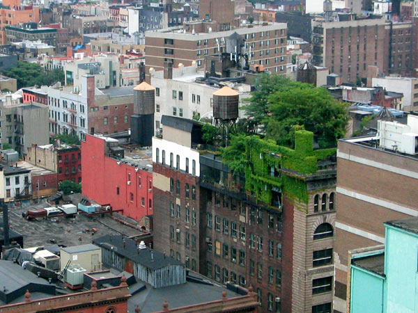 Greenery seems to be taking over the roof of one building in lower Manhattan (419 Lafayette St).